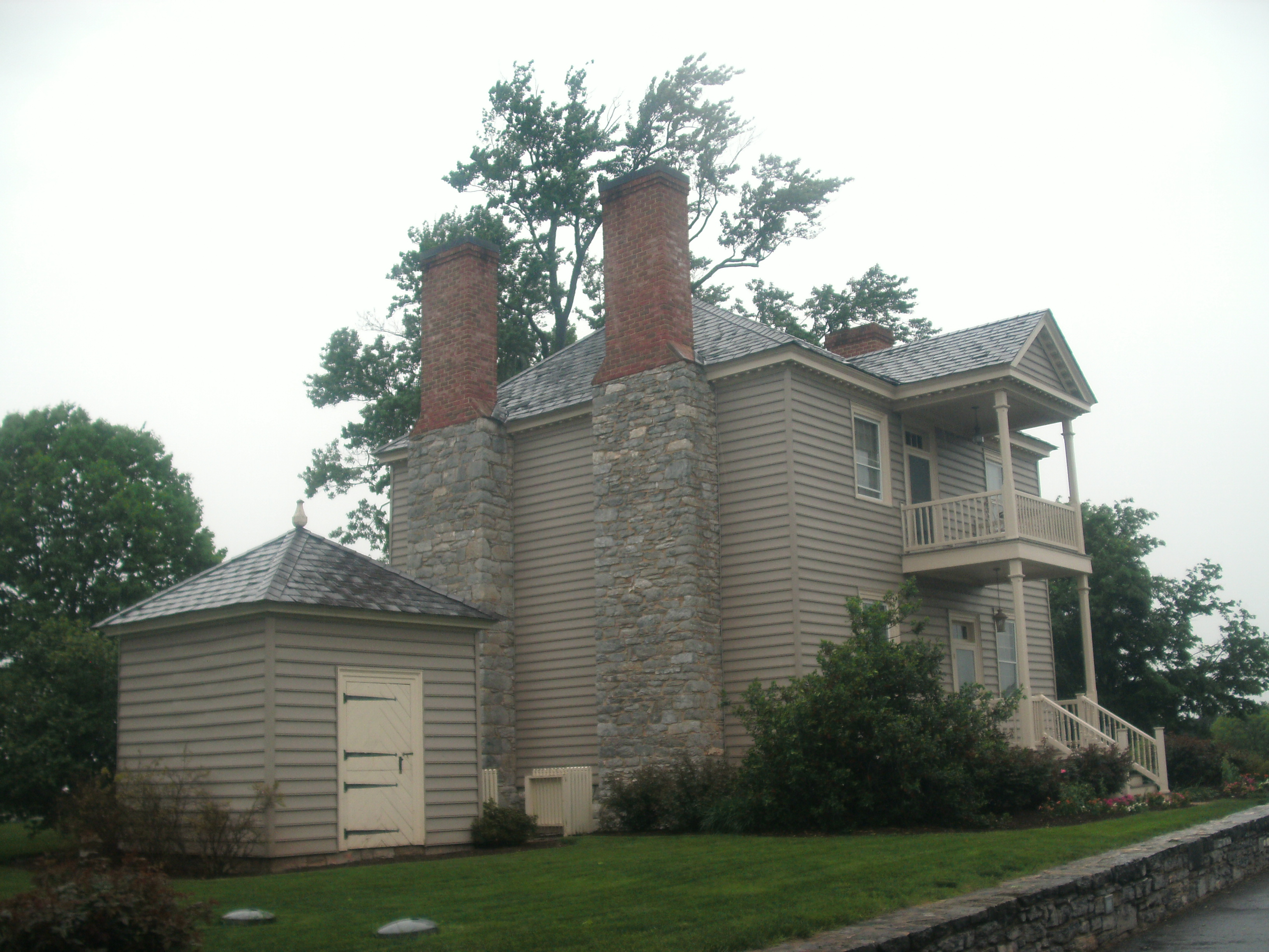 Taken by me in May, 2016 GEDSC DIGITAL CAMERA